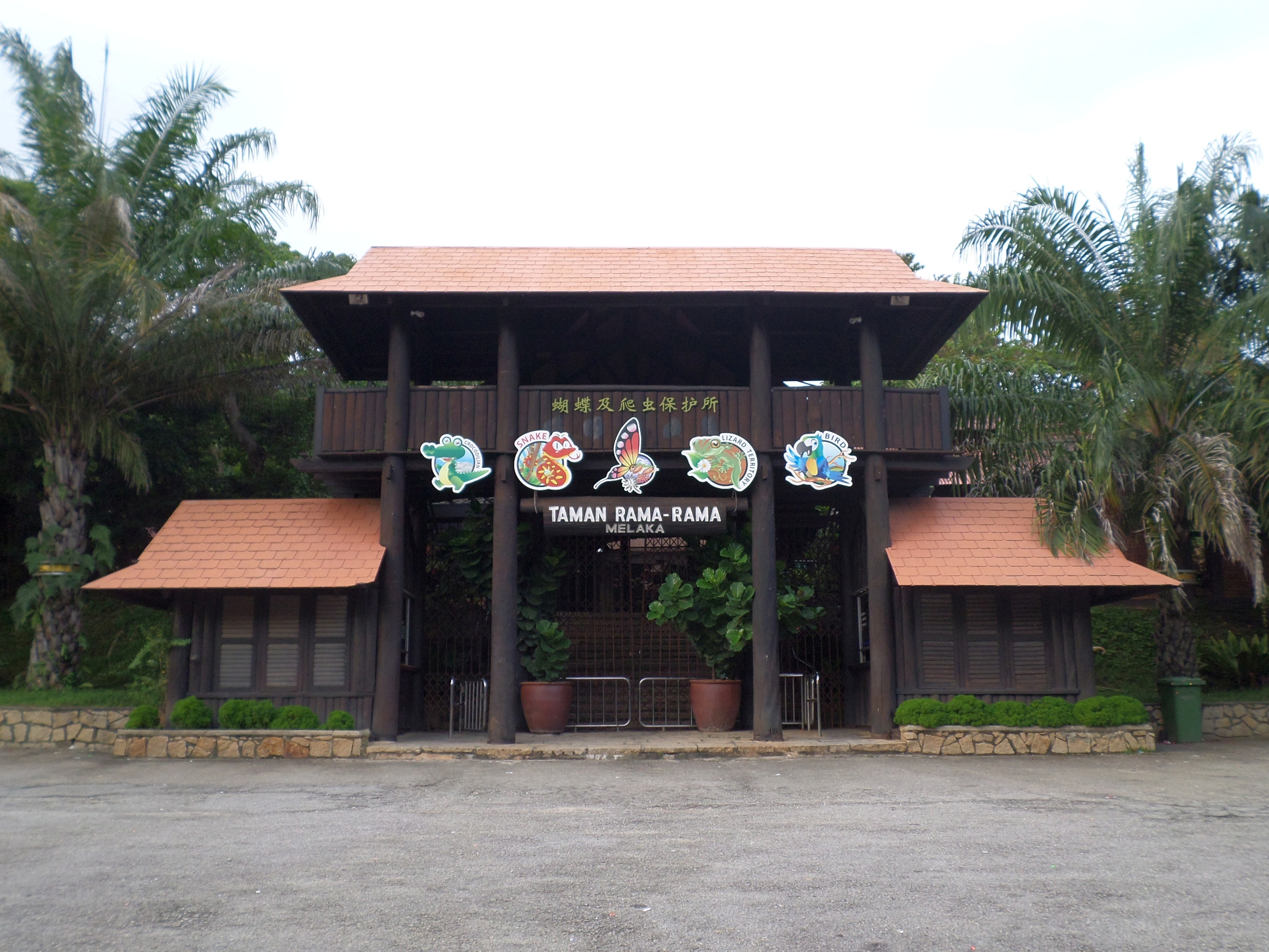 Melaka Butterfly & Reptile Sanctuary, Ayer Keroh, Melaka, MalaysiaBahasa Melayu: Taman Rama-Rama, Ayer Keroh, Melaka, Malaysia